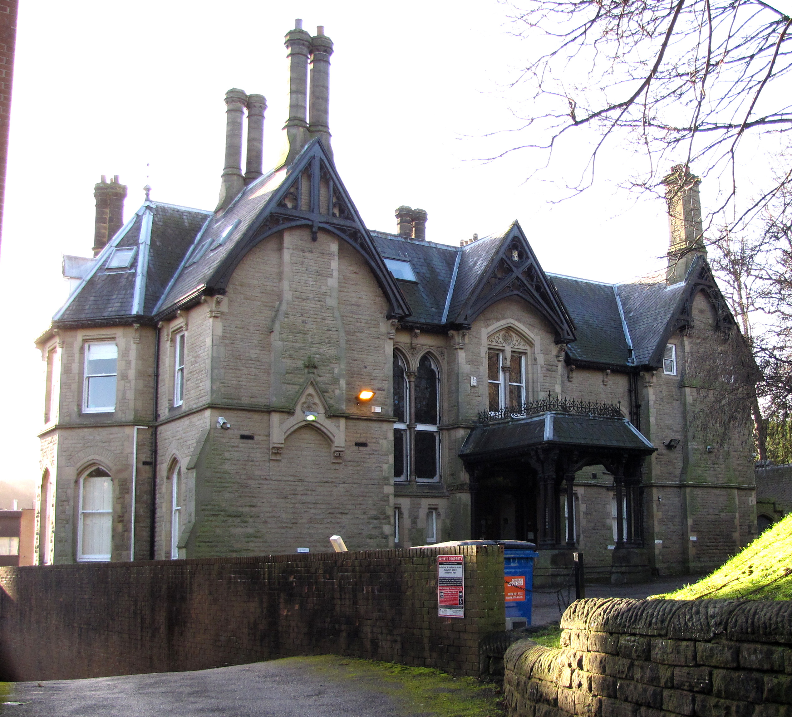 Riverdale House in the Ranmoor area of Sheffield, England. This Grade II Listed Building dates from around 1860. Originally a private house it is now used as offices.